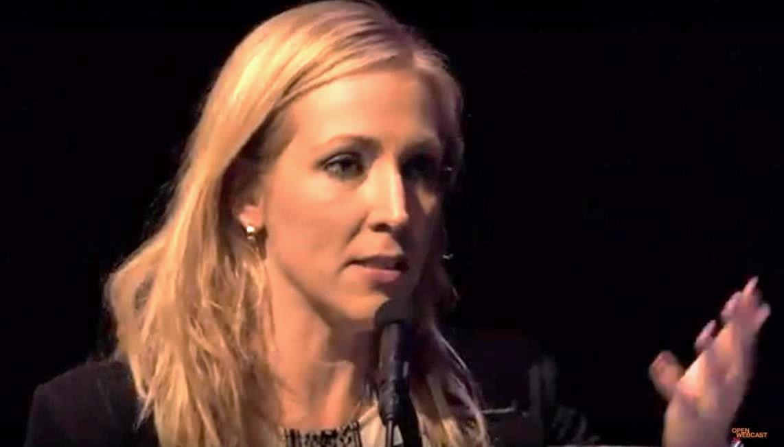 Dutch politician Lilian Marijnissen in 2017